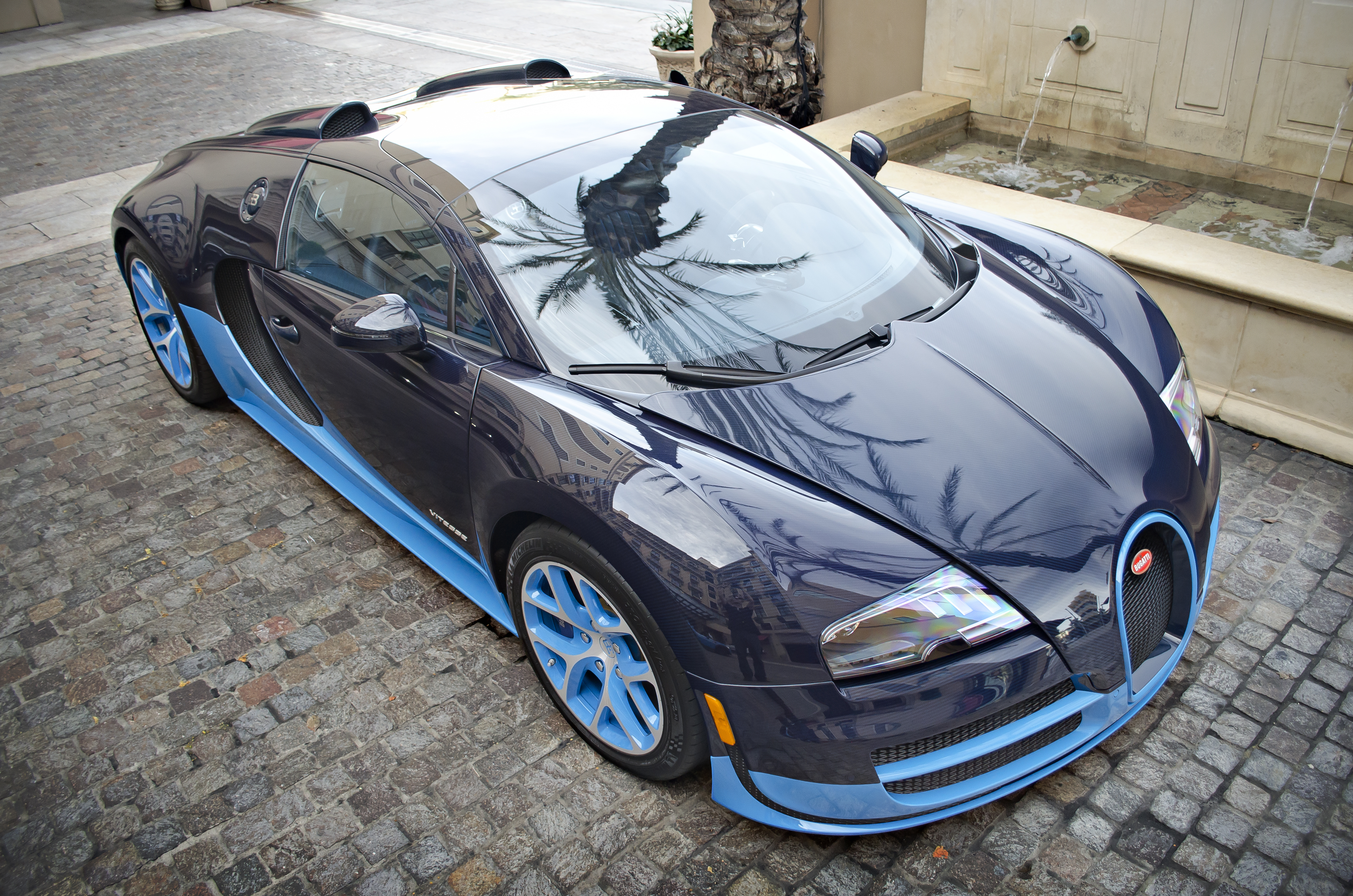 Blue Bugatti Veyron Grand Sport Vitesse AKA Bleugatti spotted in Beverly Hills